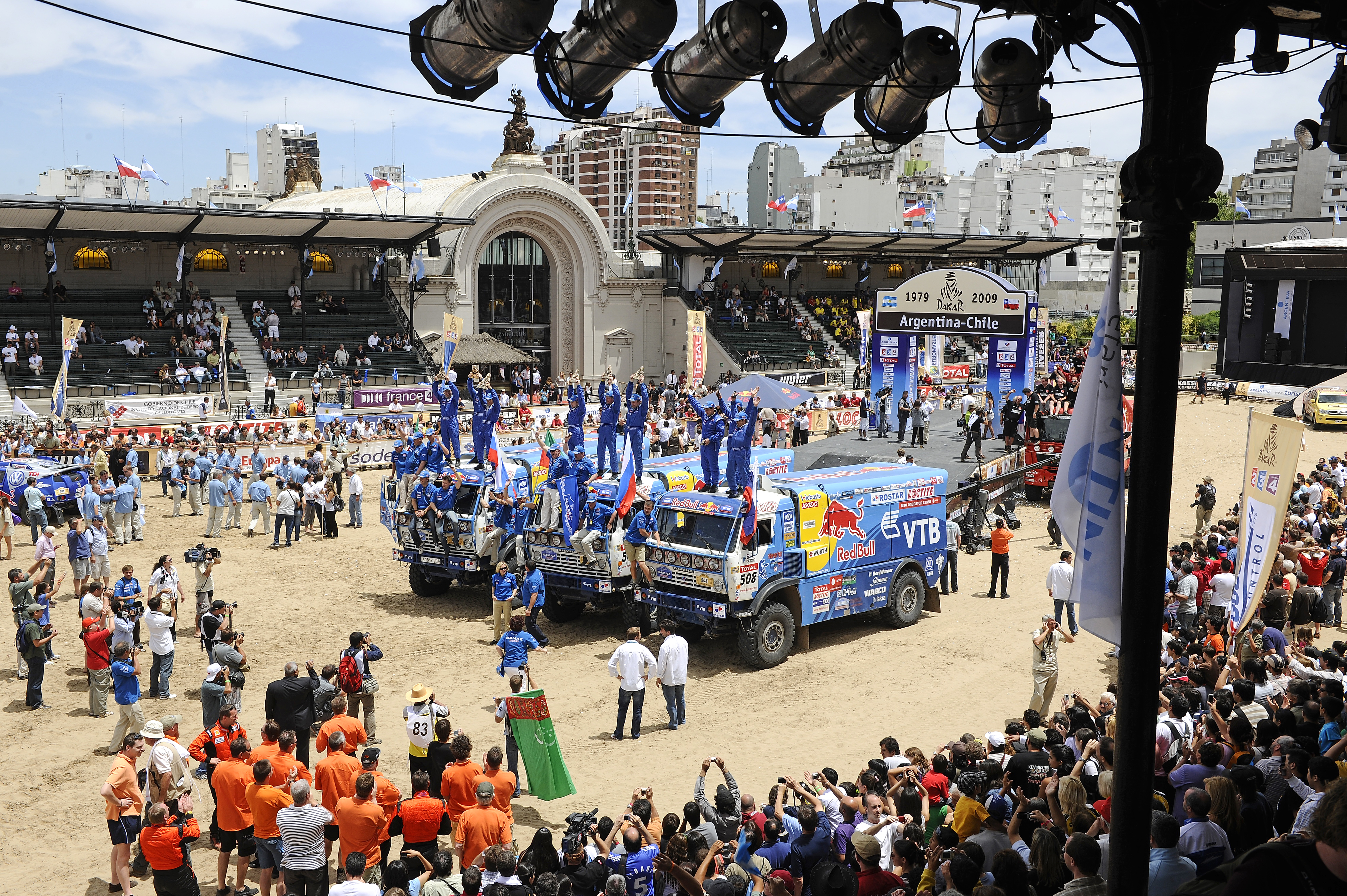 10 000 километров позади, финиш ралли «Дакар-2009»